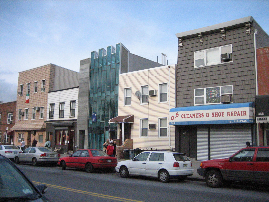 Graham Avenue in Williamsburg, Brooklyn